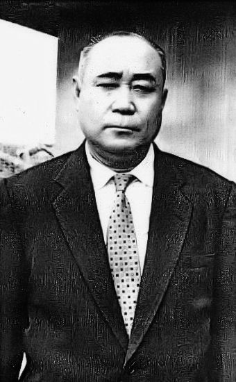 Chotoku Ogimi